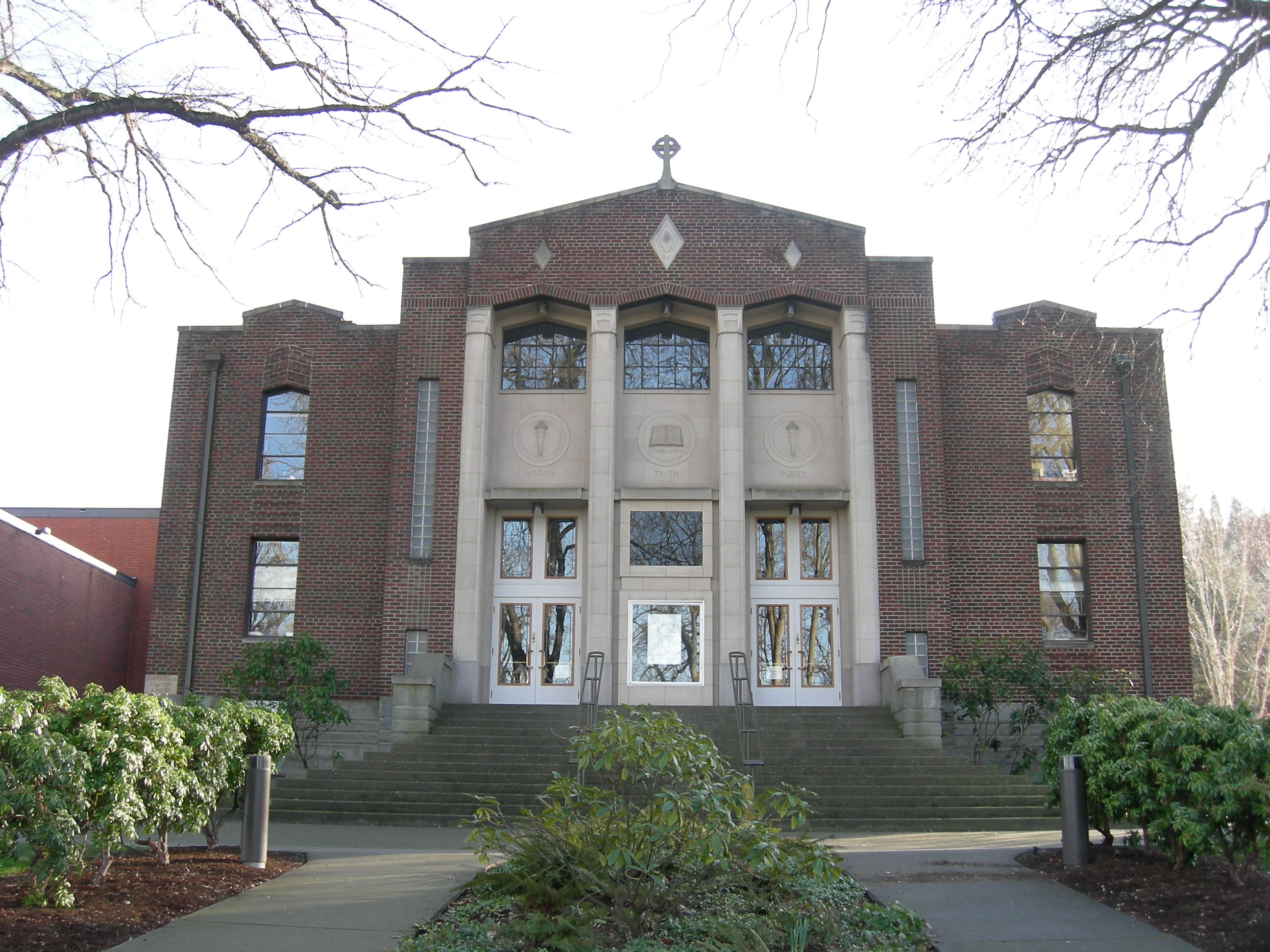 McKinley Theater, Seattle Pacific University, Seattle, Washington.